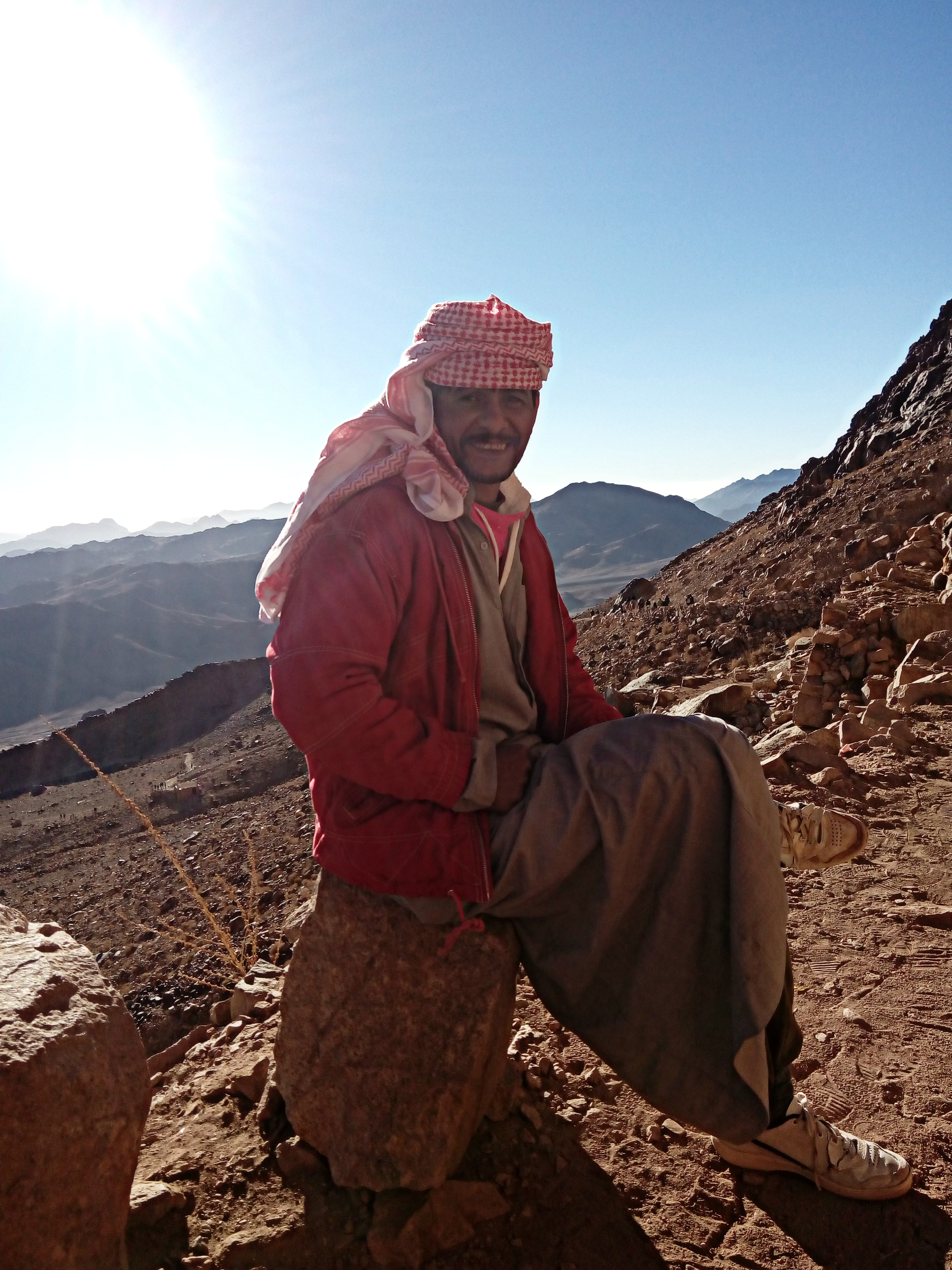 On the way down from Mount St. Catherine, this Bedouin was sitting as one of the nobles on this rock, shrouded in sunrise. Many of these nomads serve as guides for tourists and climbers in this mountain which is important in many religions. (Sinai - Egypt)